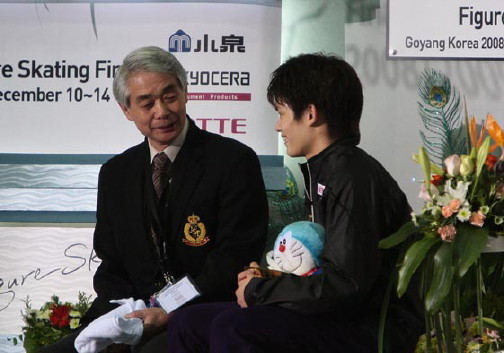 Takahiko Kozuka with coach Nobuo Sato in the kiss & cry at the 2008-2009 Grand Prix Final